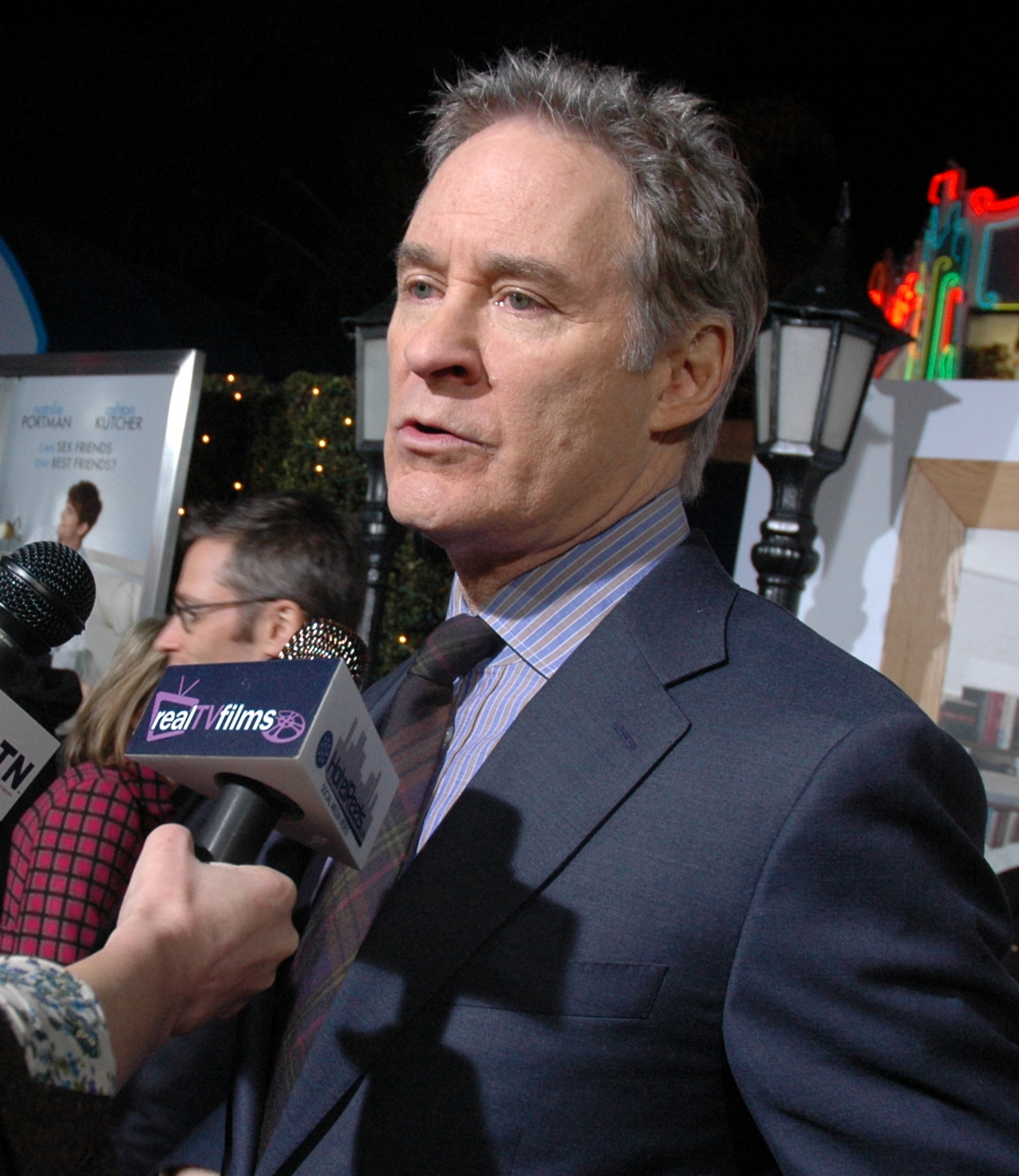 KEVIN KLINE, LA Premiere of "NO STRINGS ATTACHED", Regency Village Theatre, Westwood, 1-11-11. Cast members and filmmakers attending include: Ivan Reitman (Director), Natalie Portman (Emma), Ashton Kutcher (Adam), Kevin Kline (Alvin), Lake Bell (Lucy), Greta Gerwig (Patrice), Chris "Ludacris" Bridges (Wallace), Jake Johnson (Eli), Ben Lawson (Sam), Adhir Kalyan (Kevin), Brian Dierker (Bones), Stephanie Scott (Young Emma), Elizabeth Meriwether (Writer), Tom Pollock (Executive Producer) Joe Medjuck (Producer), Jeff Clifford (Producer), Roger Birnbaum (Executive Producer), Gary Barber (Executive Producer), Jonathan Glickman (Executive Producer)